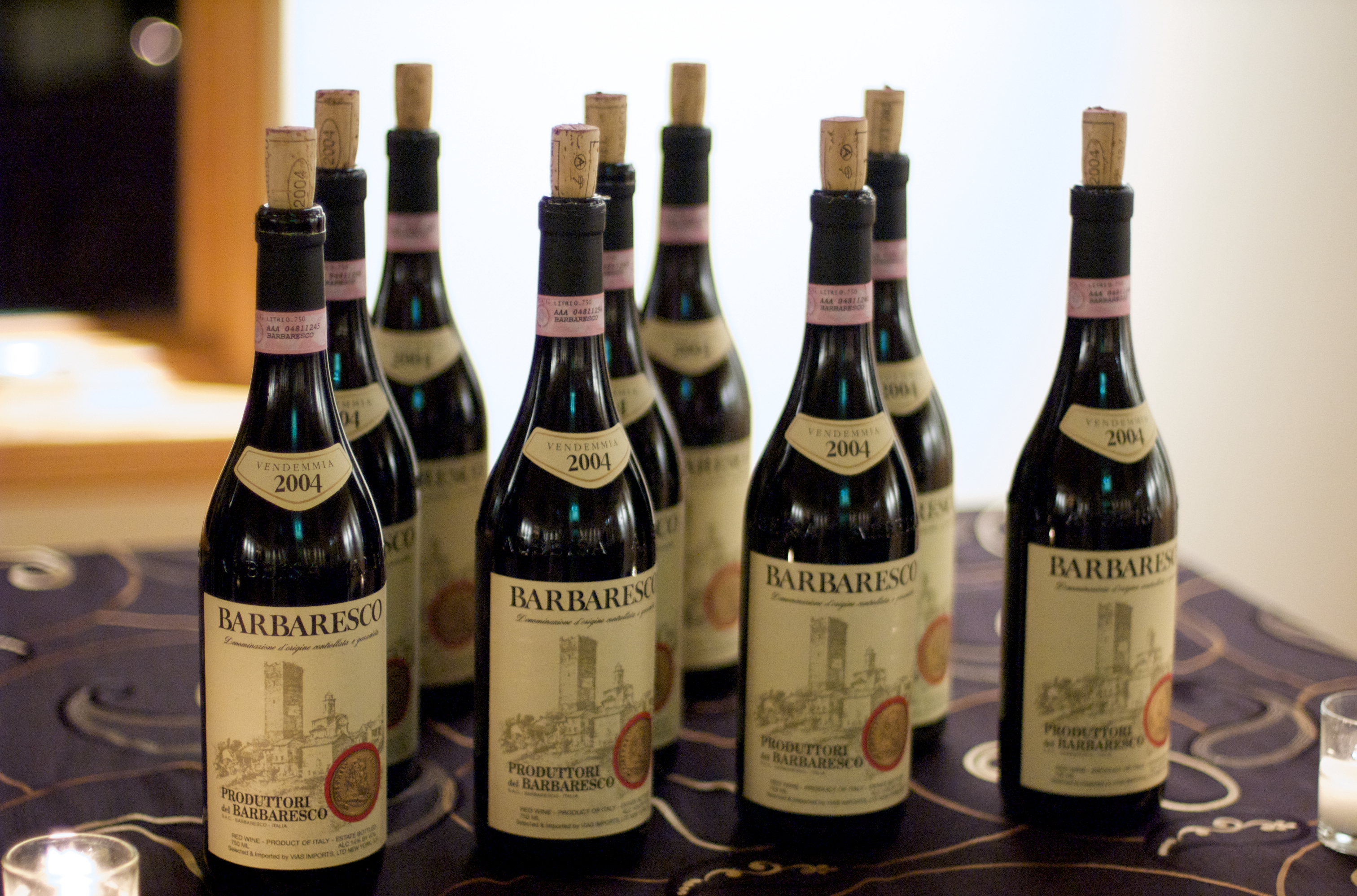 Italian wine made from Nebbiolo in Piedmont